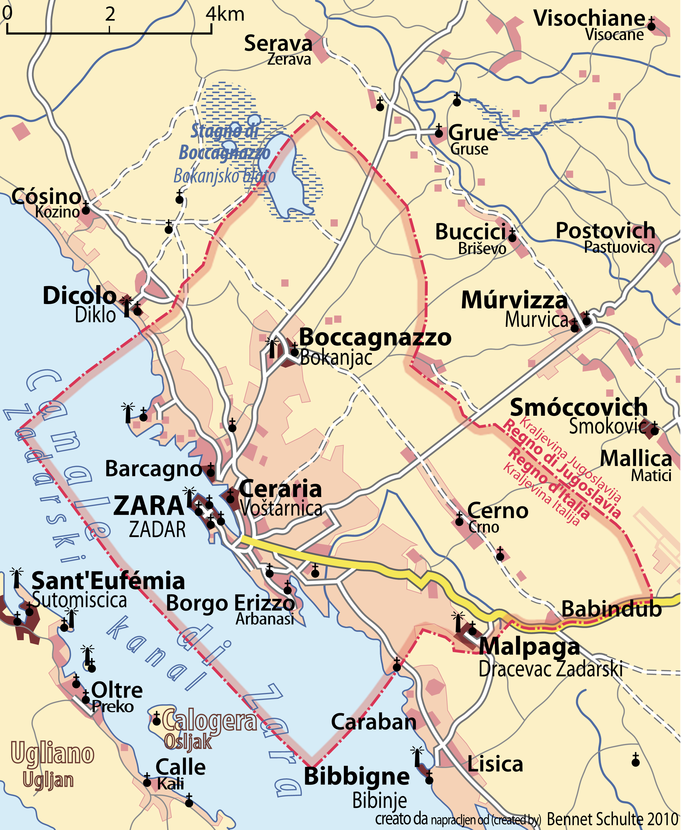 Map of the area of Zadar and the Italian territory in Dalmatia 1920-1947.